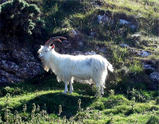 Feral Kashmiri goat grazing rough vegetation on the Great Orme, Llandudno. A herd of these wild goats has grazed the rough pastures on the Great Orme for many years now.